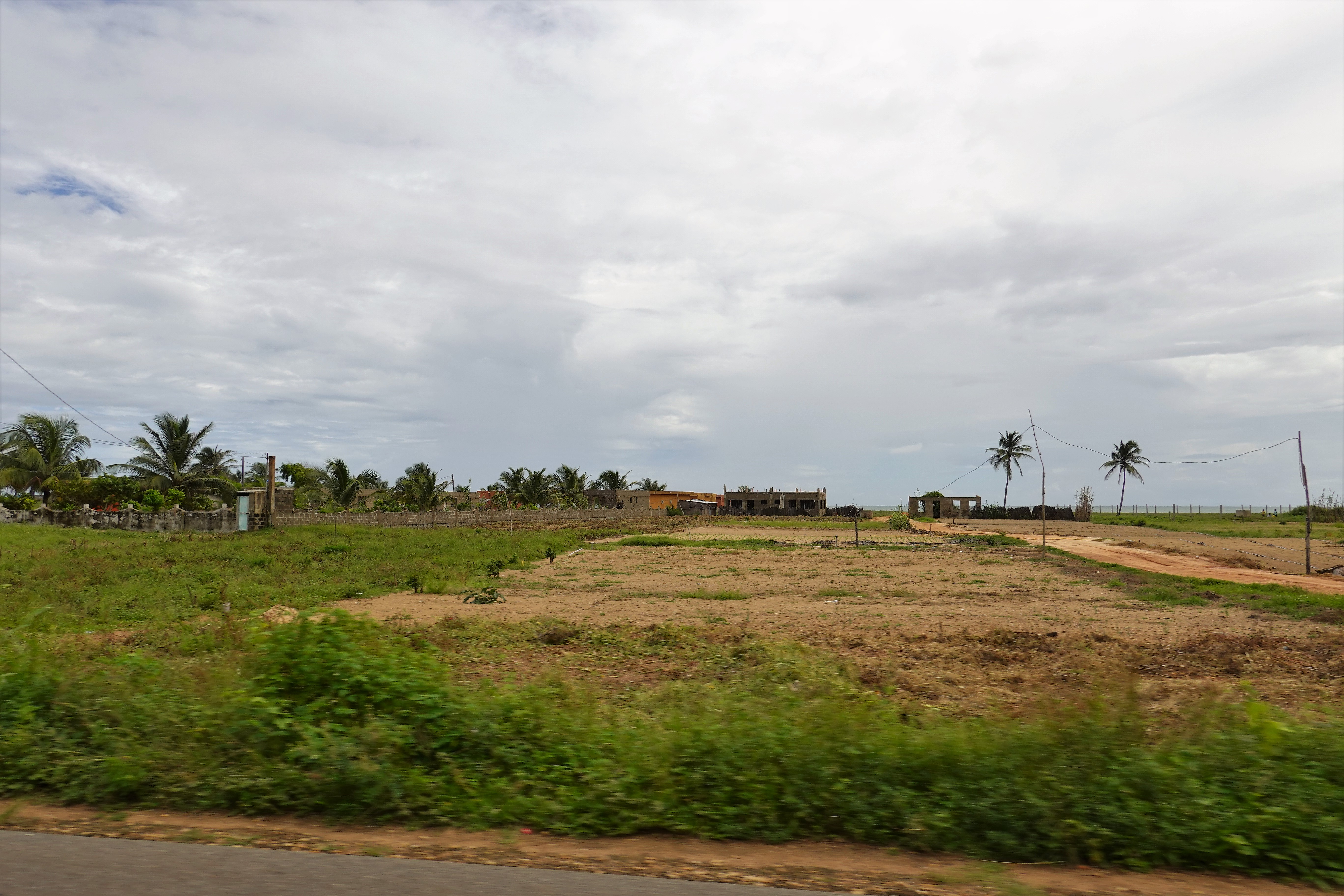 Farmed patches, houses on the sea side of the road